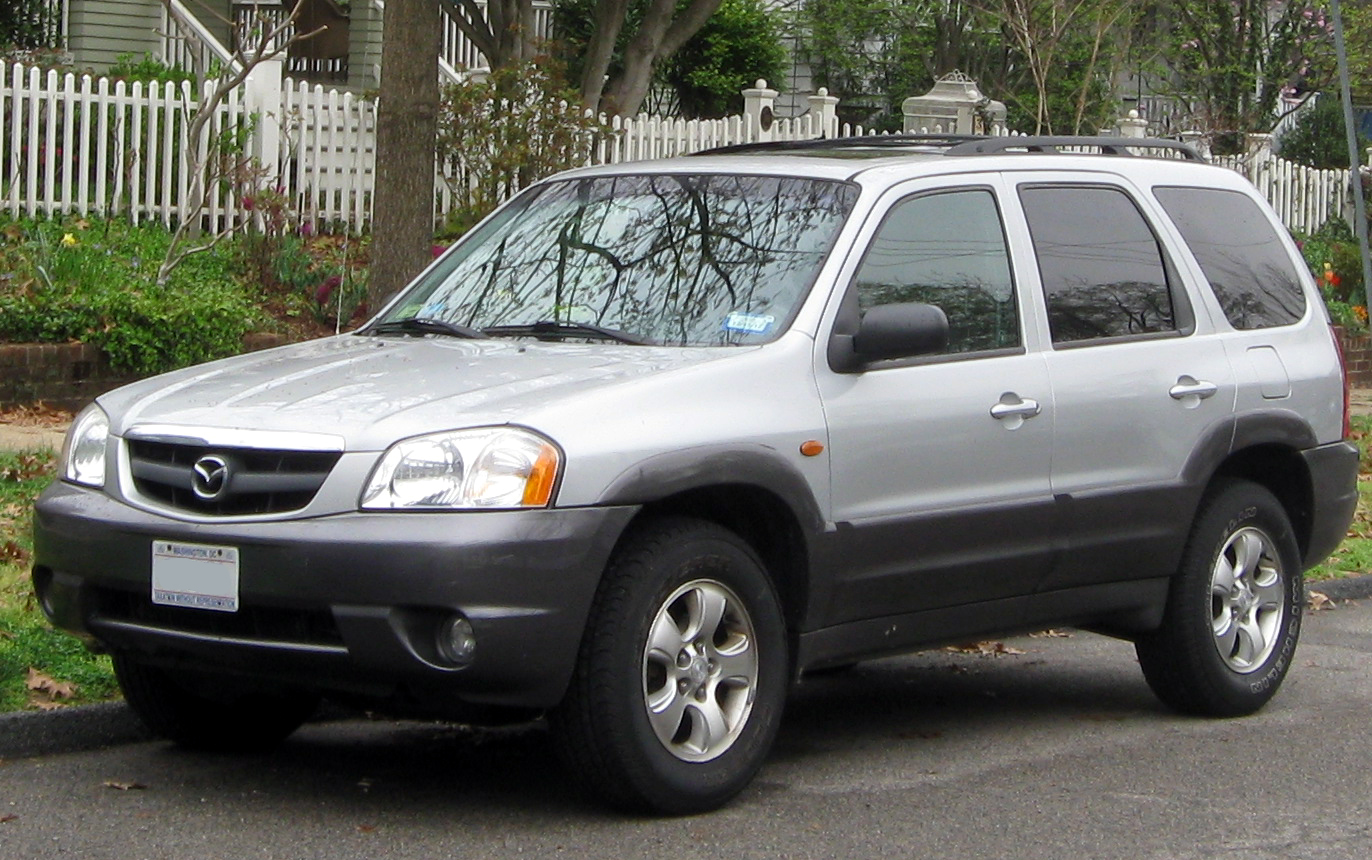 2001-2004 Mazda Tribute photographed in Washington, D.C., USA.